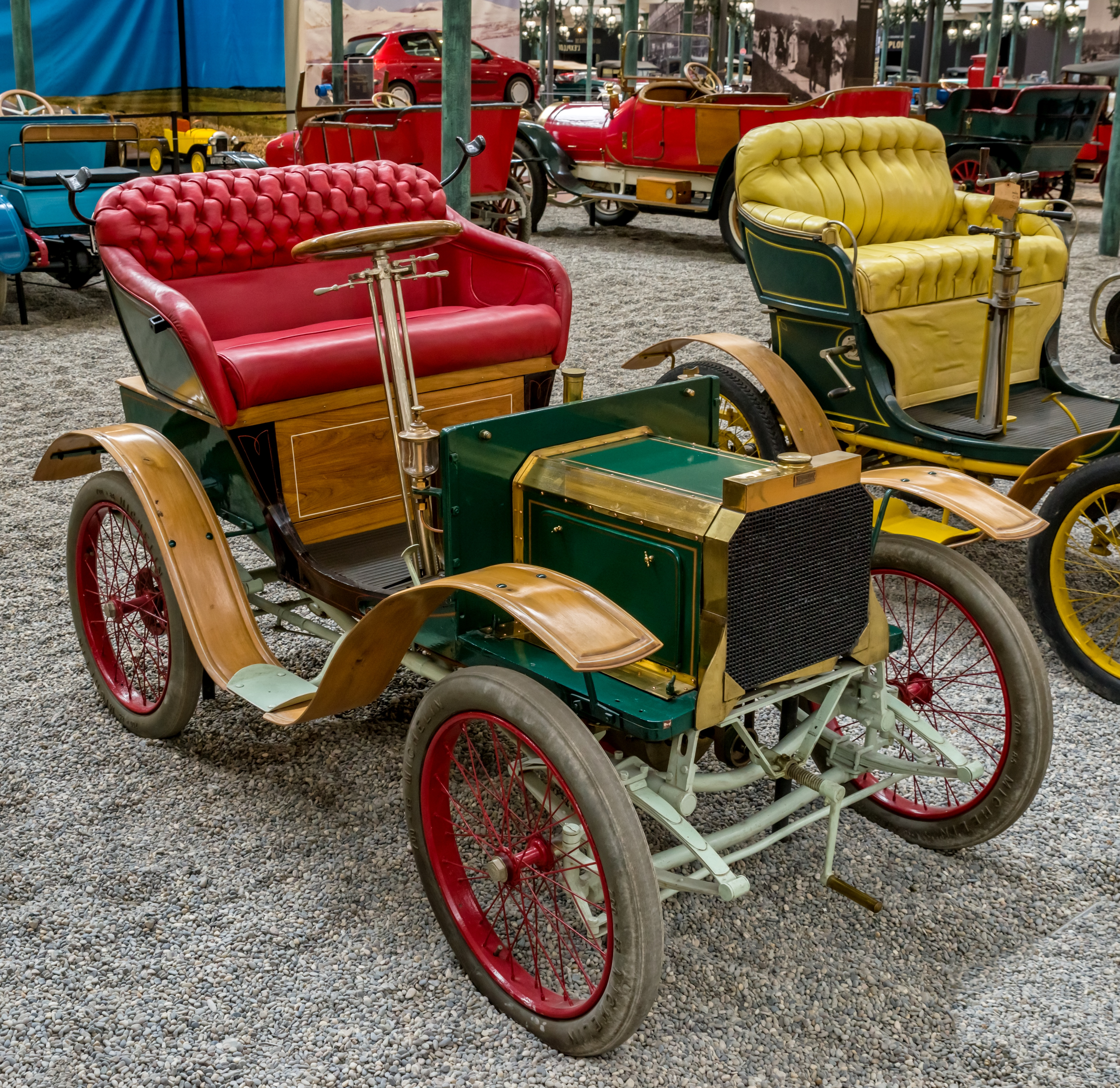 pictures from the Cité de l’Automobile – Musée National – Collection Schlump in Mulhouse, France ptictures from the 10. may 2018